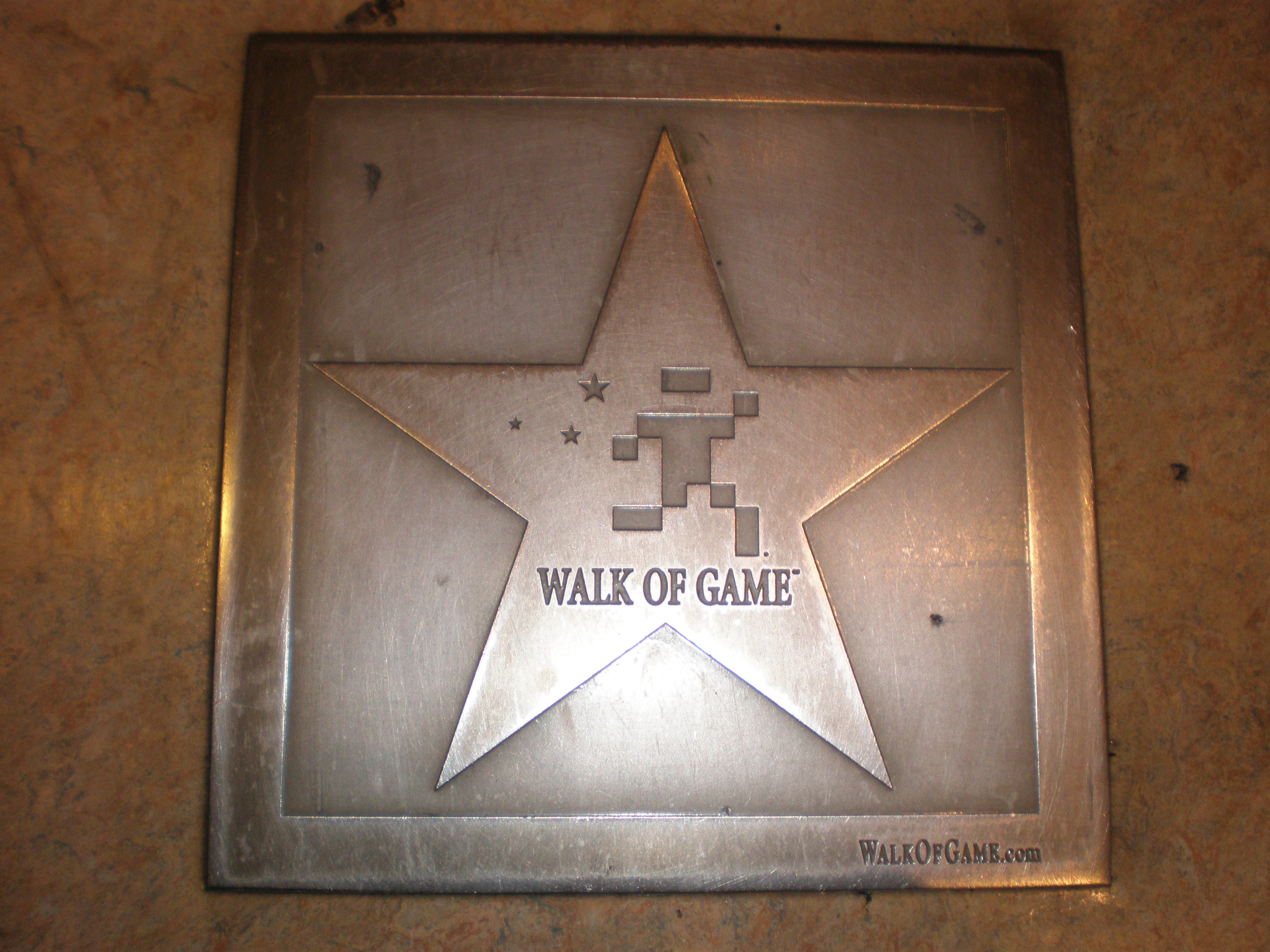 A star at the Walk of Game in the Metreon in San Francisco, California.